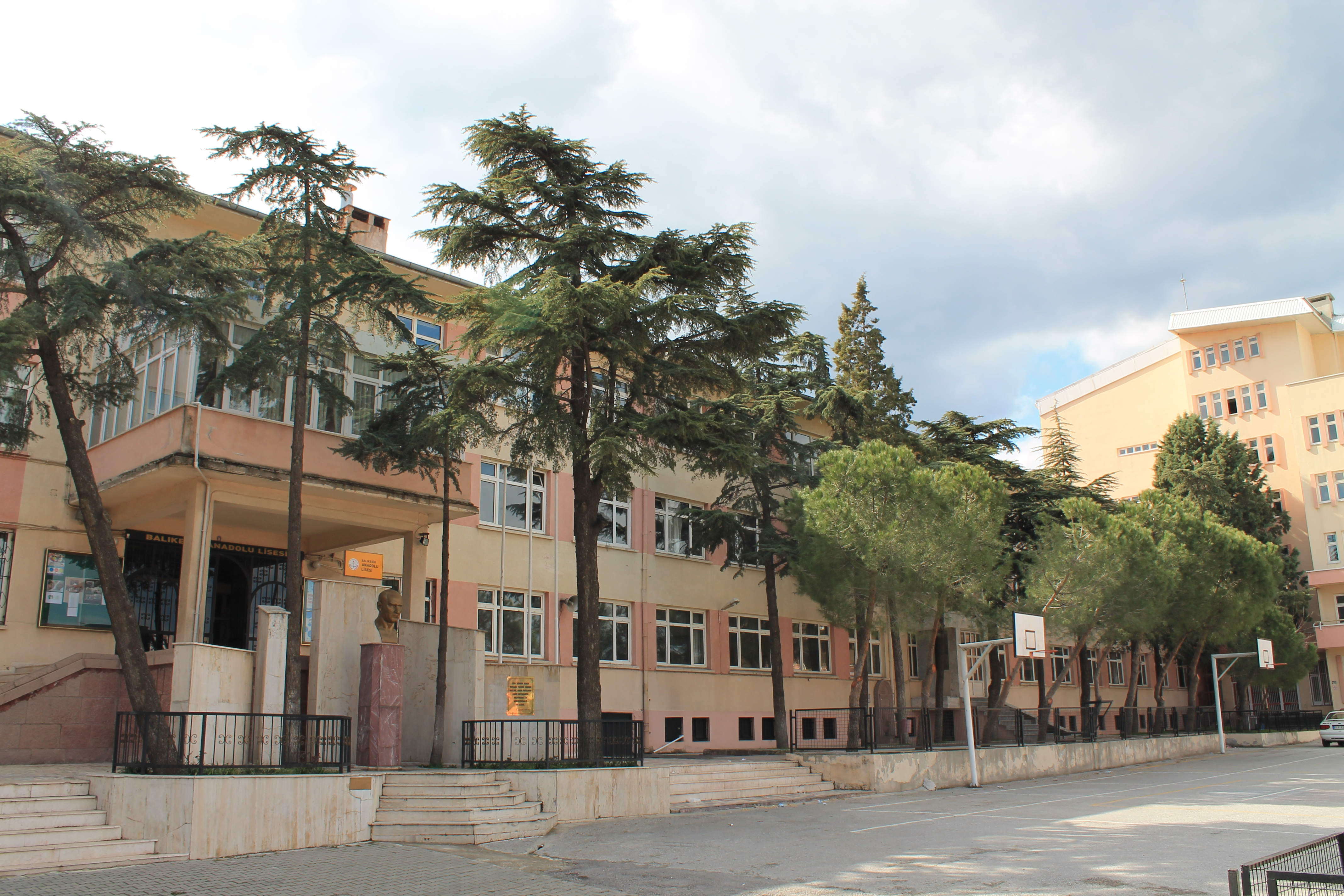 Balıkesir Highschool